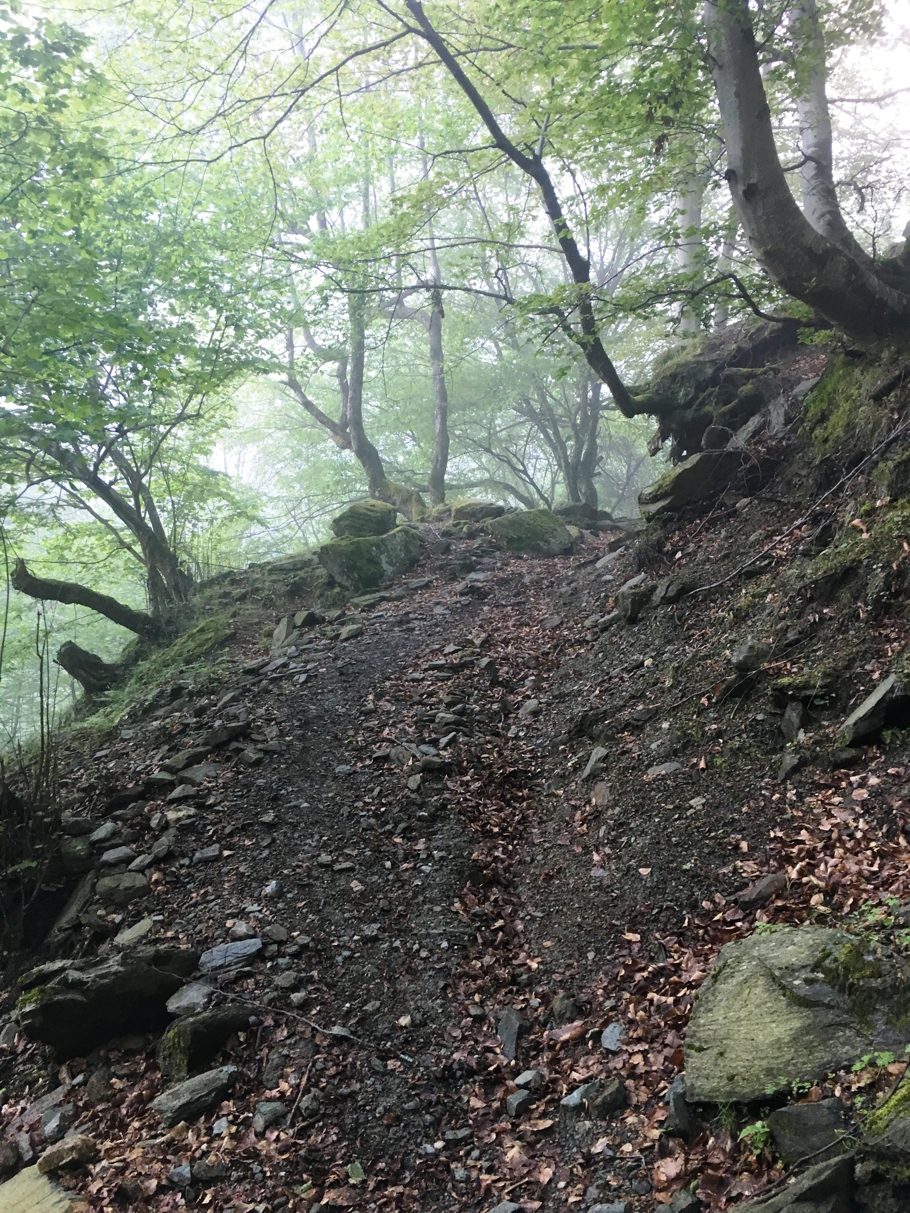 Ridgeway on Plačkovica, Macedonia.